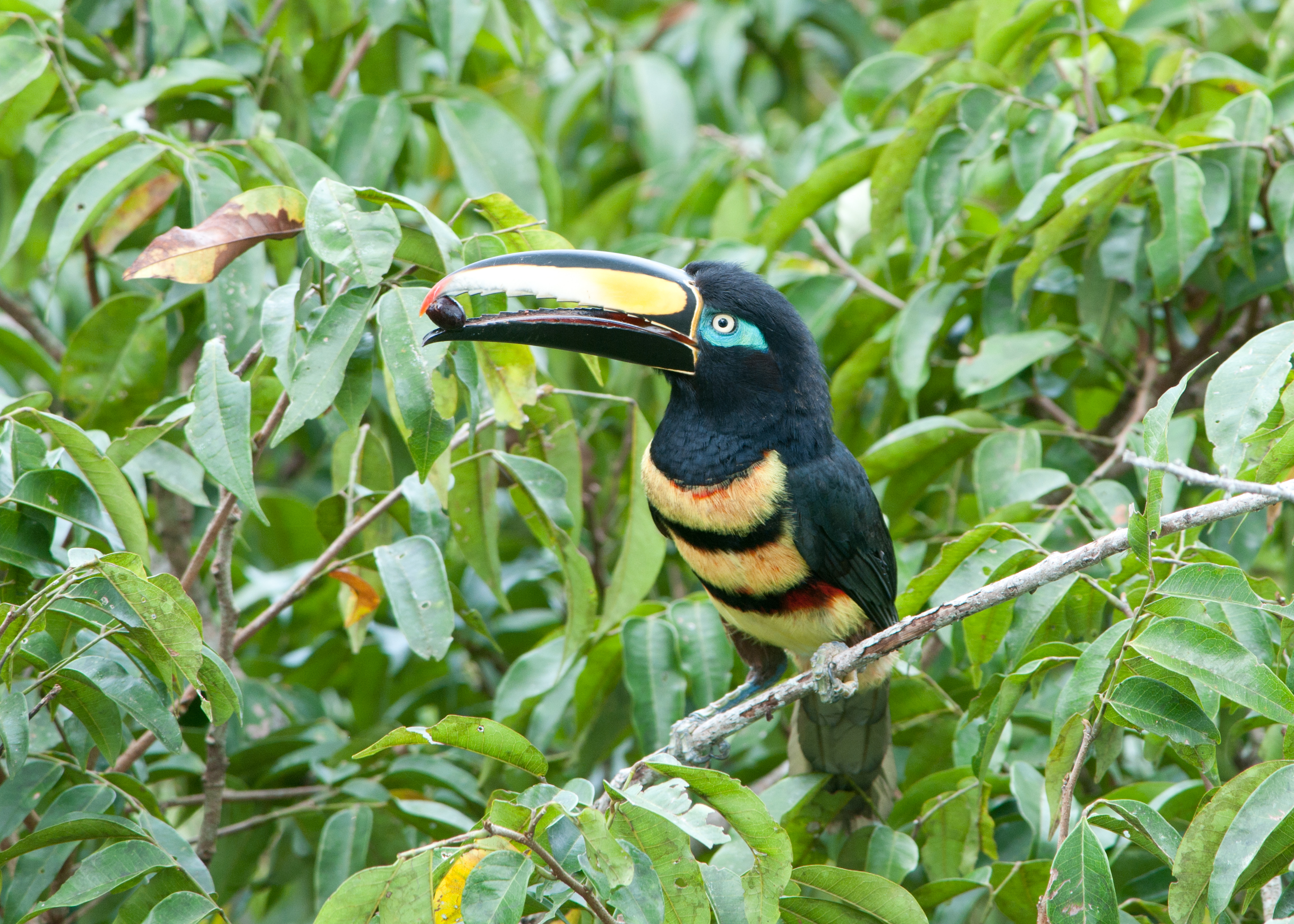 Many-banded Aracari, Sani Canopy Tower, Ecuador